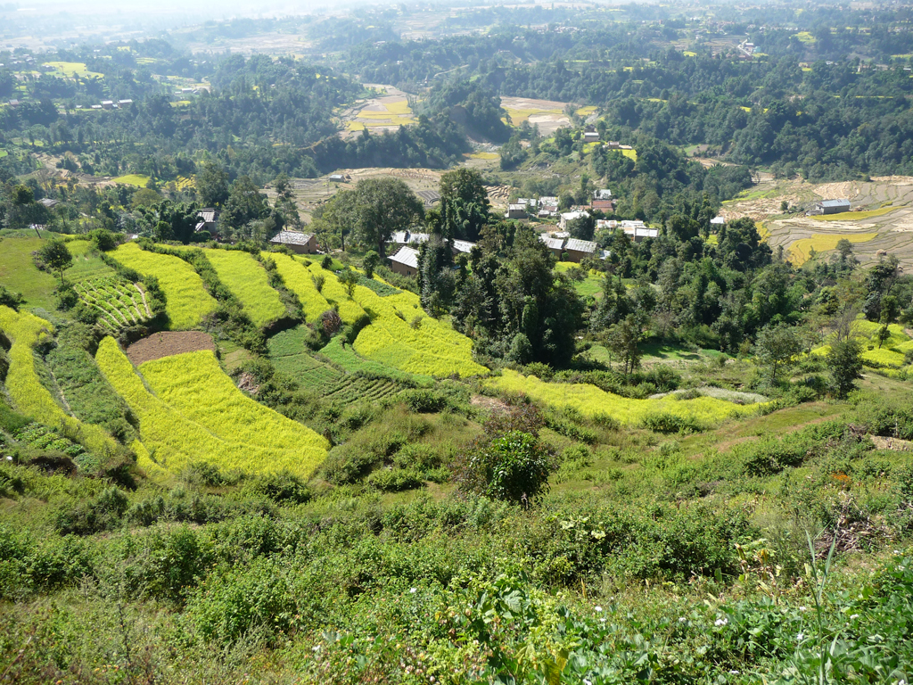 Changunarayan, Nepal